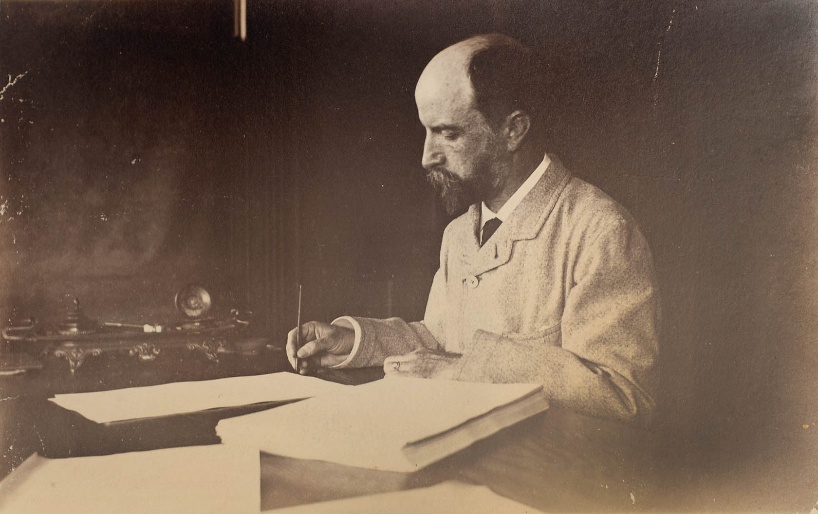 Henry Adams seated at desk in study, writing, in light coat. Photograph by Marian Hooper Adams, 1883. Image: 11.8 cm x 18.8 cm; album page: 17.4 cm x 25.5 cm. From the Marian Hooper Adams photographs. From the Marian Hooper Adams photographs; Photo. 50.52 (Album 8, page 5). Courtesy of the Massachusetts Historical Society.